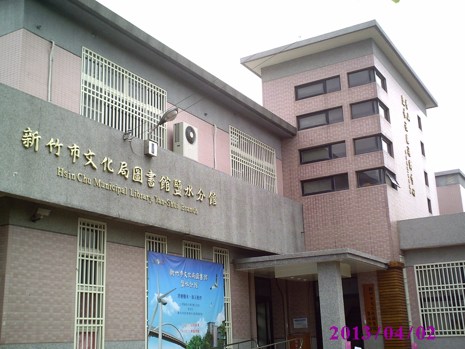 Hsinchu Municipal Library, Yanshui Branch